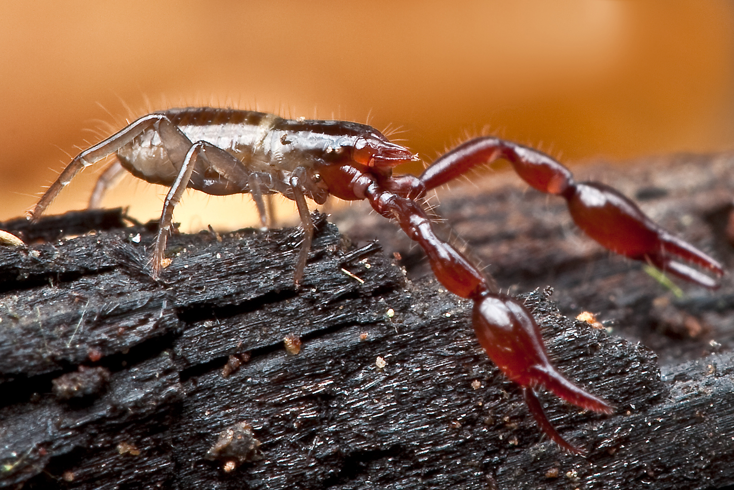 collected by Casey Richart & Bill Leonard, Thuja + Abies + Tsuga habitat, St Joe National Forest, Idaho